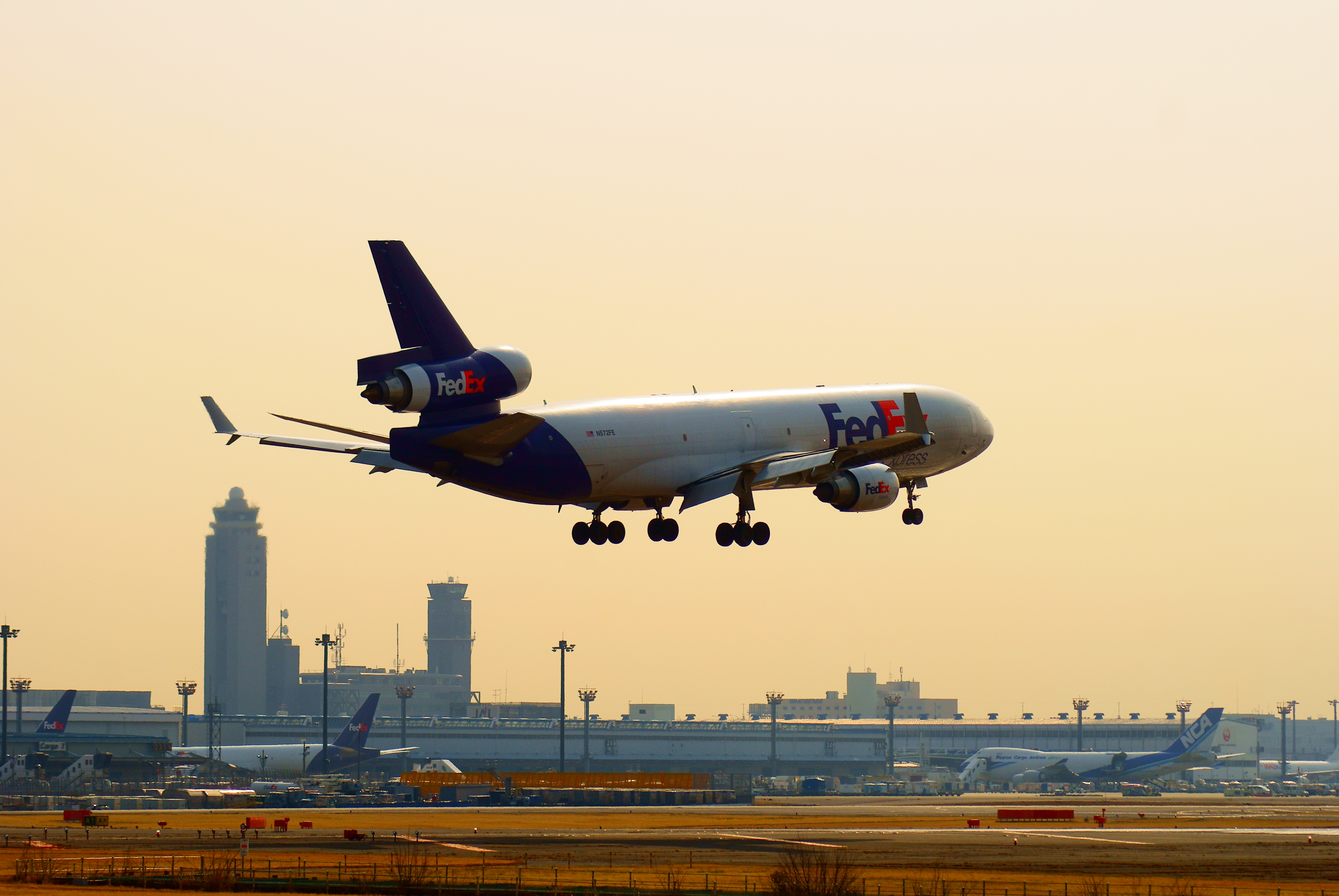 FedEx Corporation McDonnell Douglas MD-11 landing at Tokyo Narita Airport